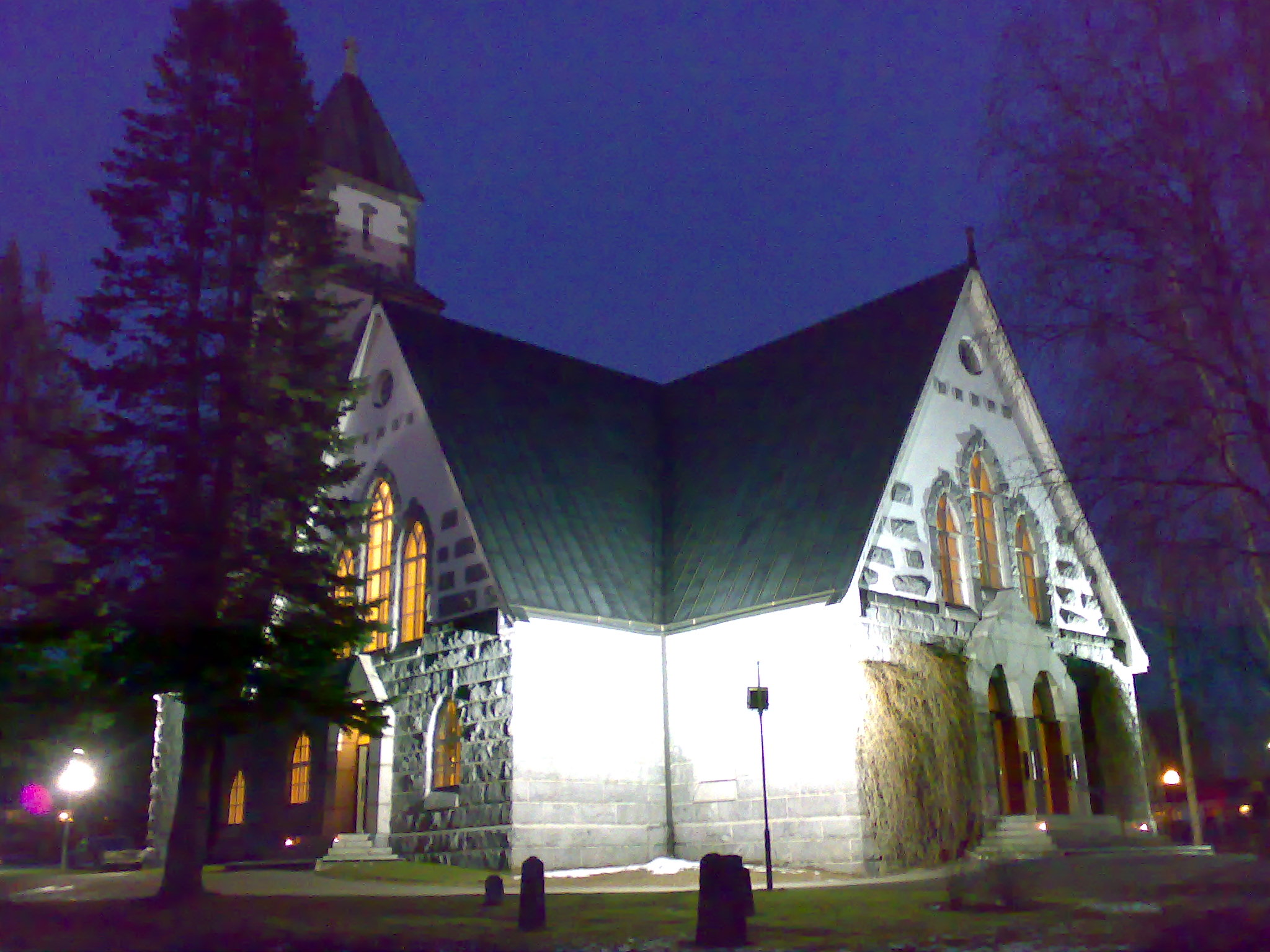 Hirvensalmi Church, Hirvensalmi. Finland. There is less snow than last year but the camera is better